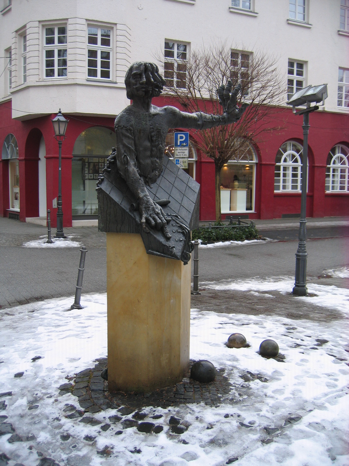 in Herford, District of Herford, North Rhine-Westphalia, Germany.